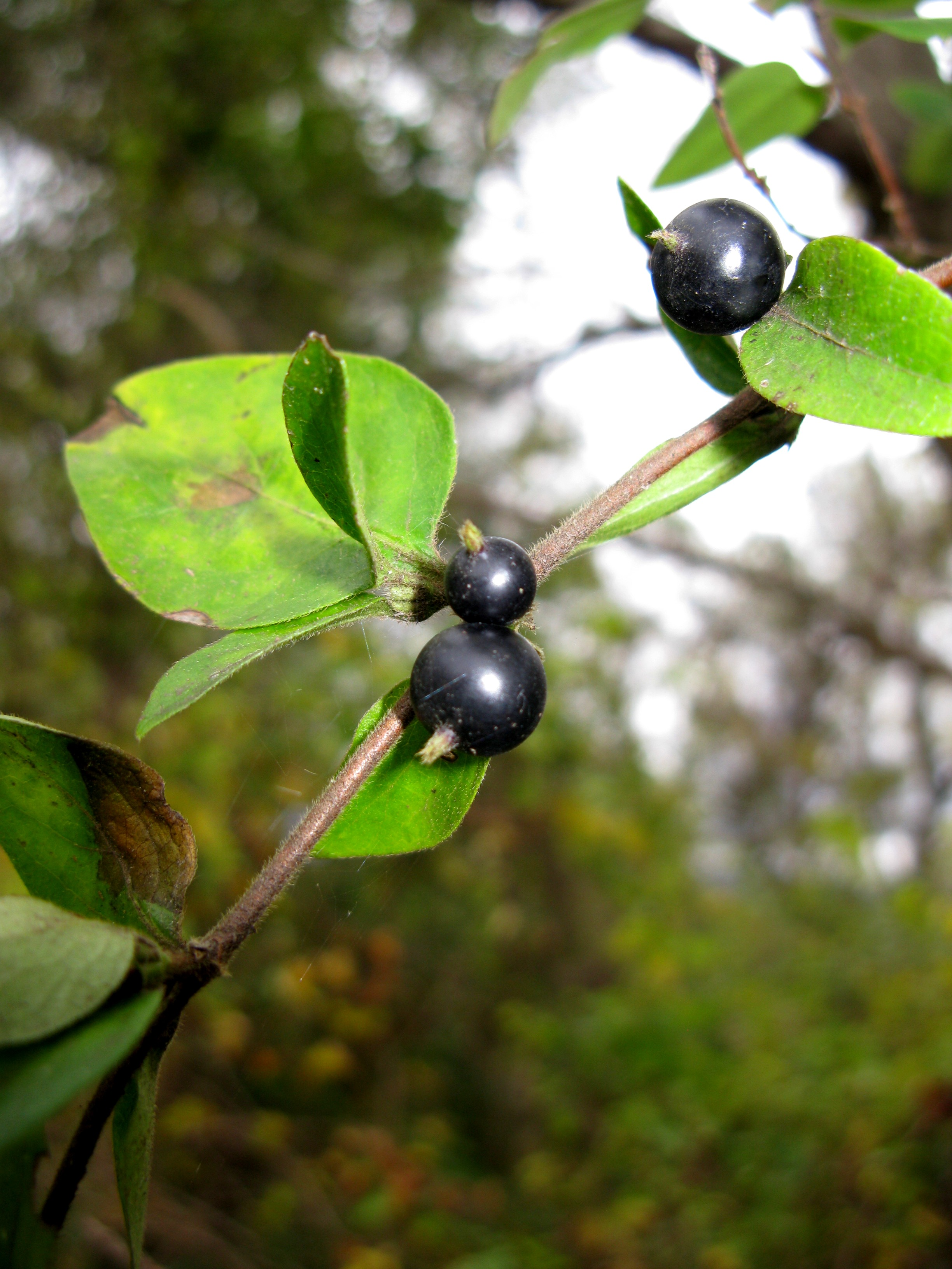 Lonicera japonica,Fruit ,Aizu area, Fukushima pref., Japan